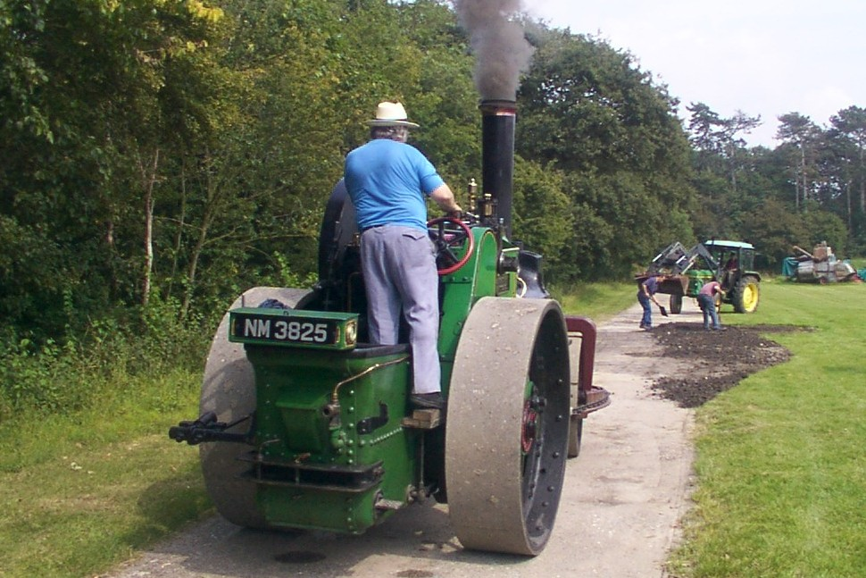 NM3825 is a 1923 Aveling & Porter Road Roller #10718 used by the Bedfordshire County Council from new to 1959. Seen working at the Museum of East Anglian Life, Stowmarket, England